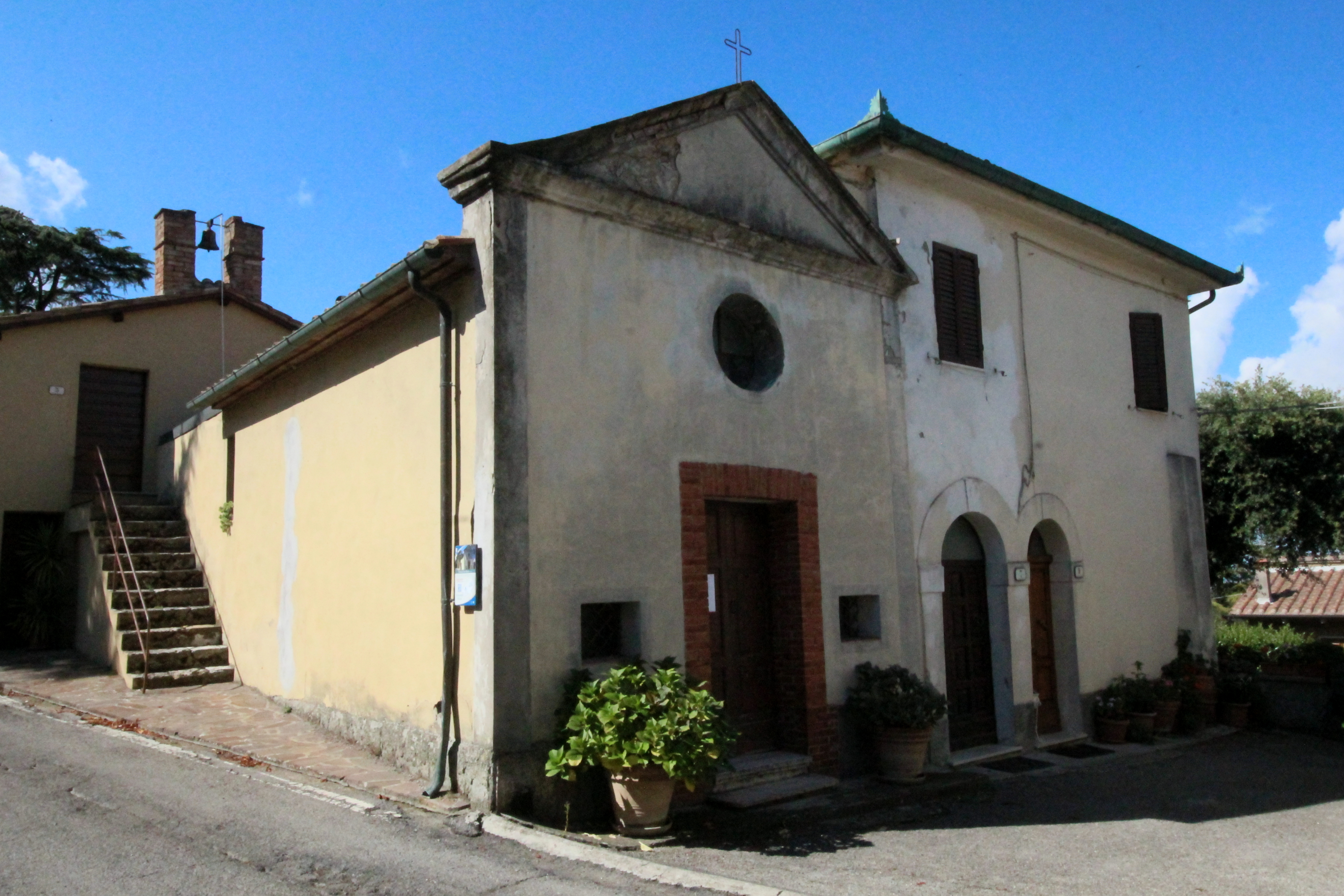 Church San Rocco, Contignano, hamlet of Radicofani, Val d’Orcia, Province of Siena, Tuscany, Italy